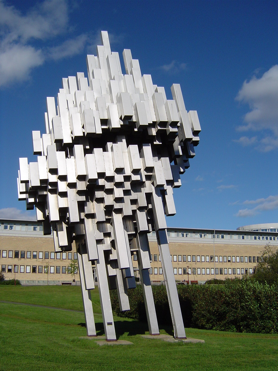 Norra skenet, stainless steel sculpture by Ernst Nordin (1934—) at Umeå University